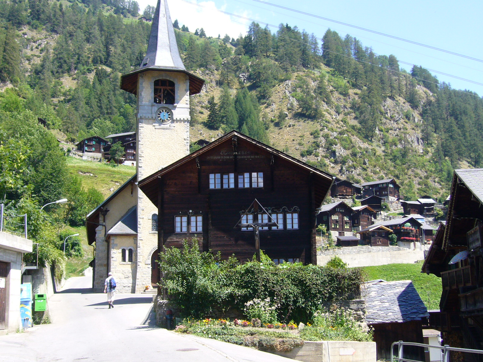 Betten, village in the canton of Vallais, Switzerland. Picture taken by Peter Berger, July 17, 2006.